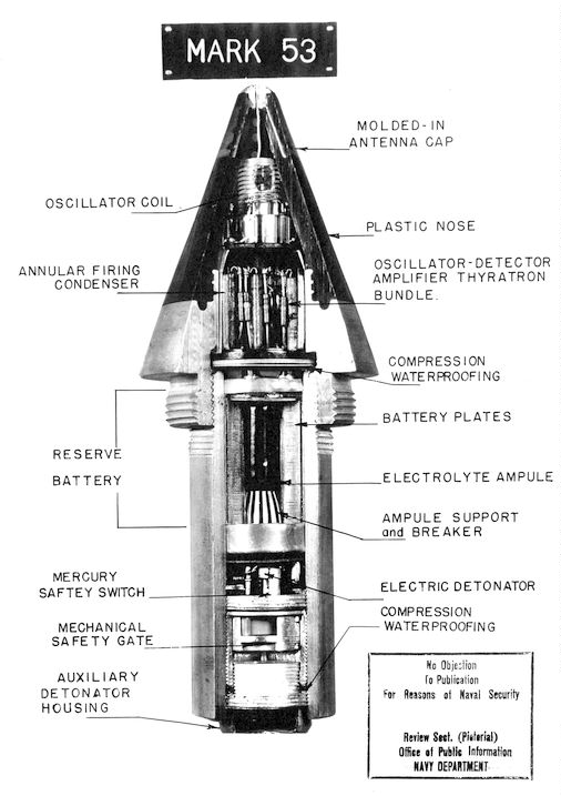 This file is located here: archive link